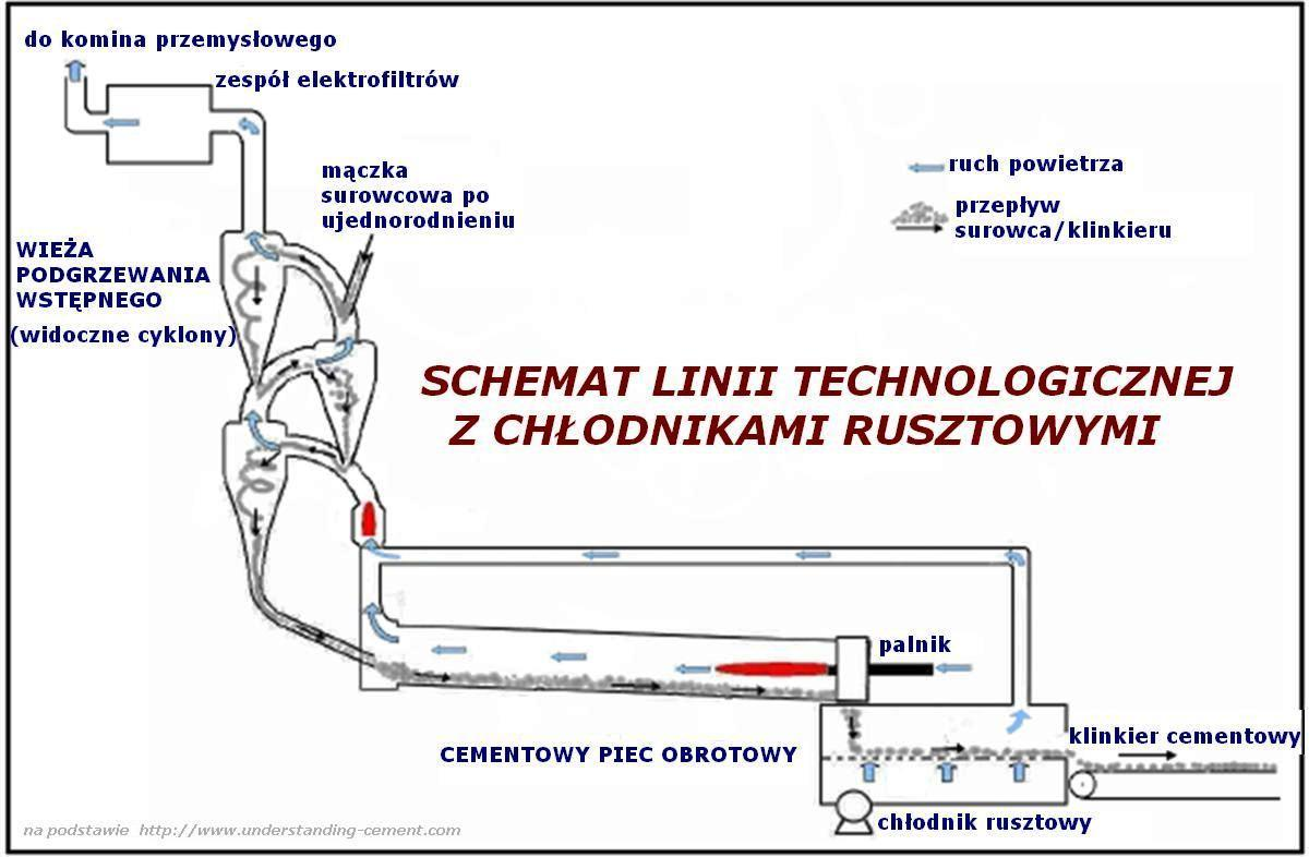 technological line for the manufacture of cement clinker (general layout)